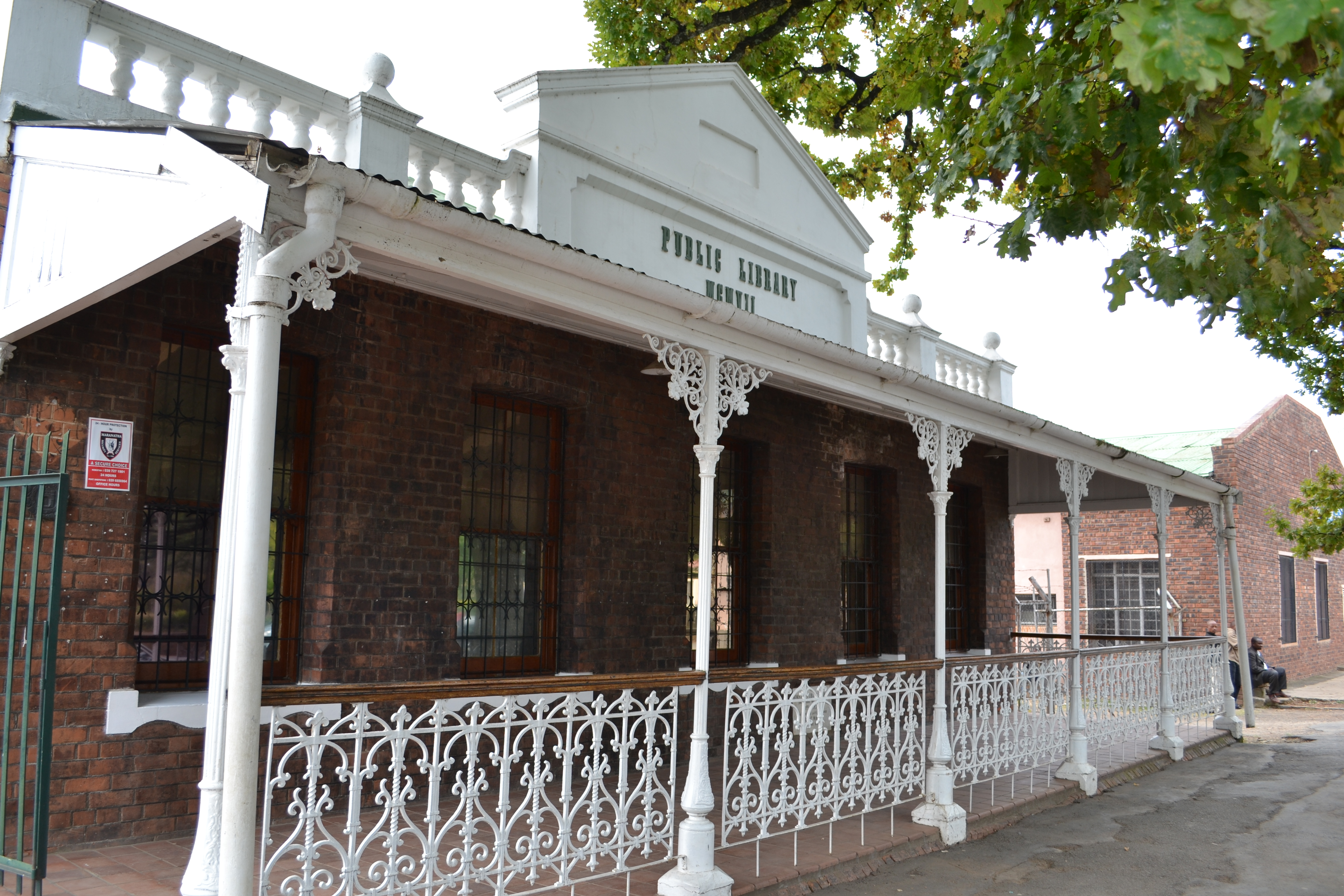 Kokstad, Kwa-Zulu Natal.